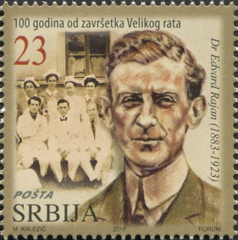 100 Years since the end of the Great War - Great doctors of the Great War